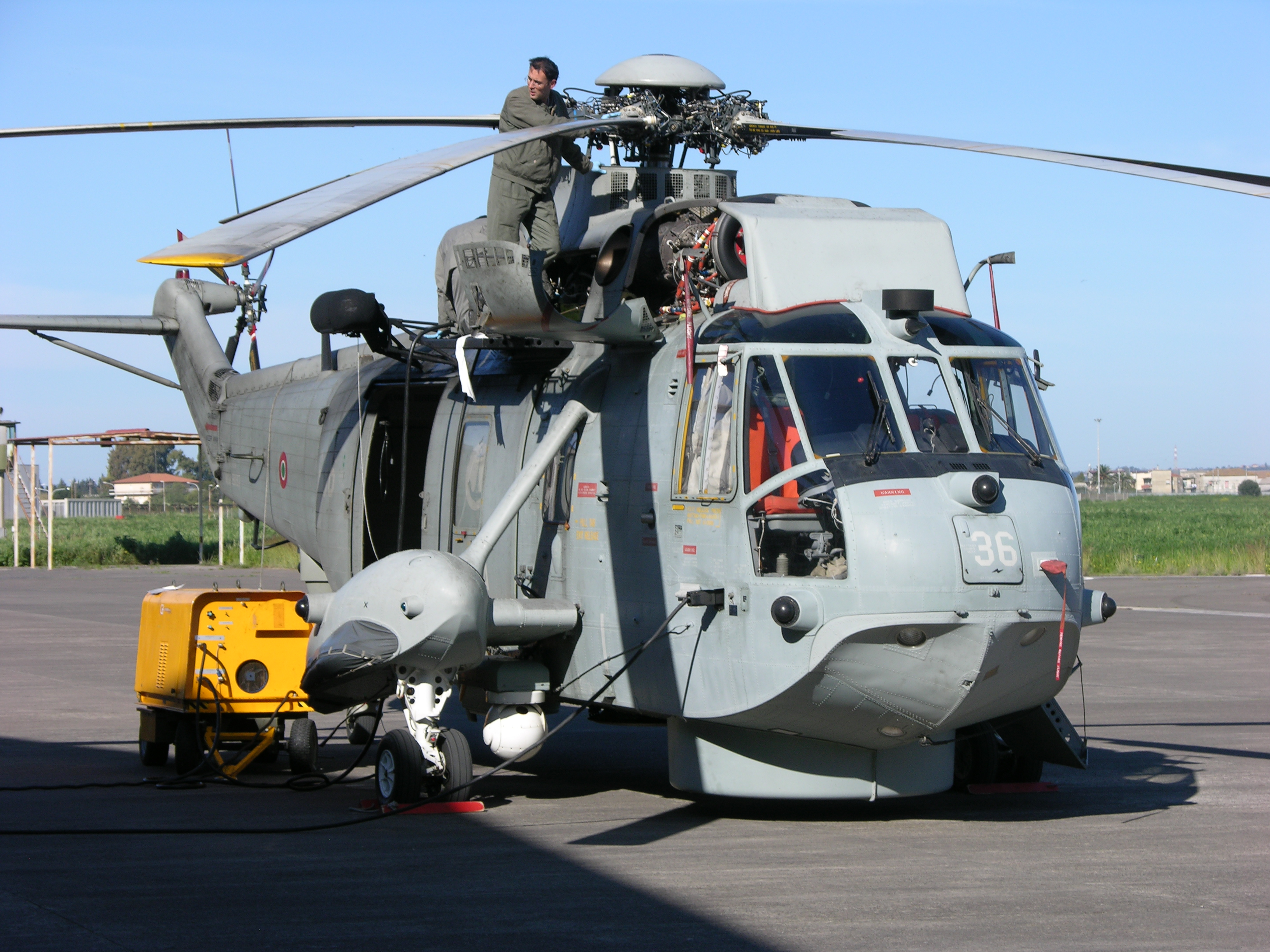 MM81187 6-36 Agusta-Sikorsky SH-3D of the Italian Navy's 3º Grupelicot getting ready to commit aviation